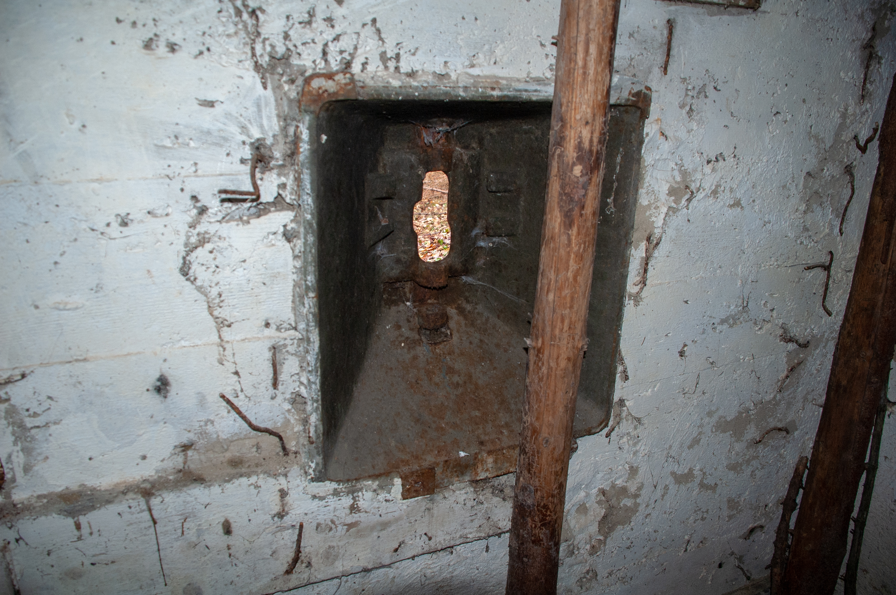 This image was created as a part of Editaton Prachatice (Czech).